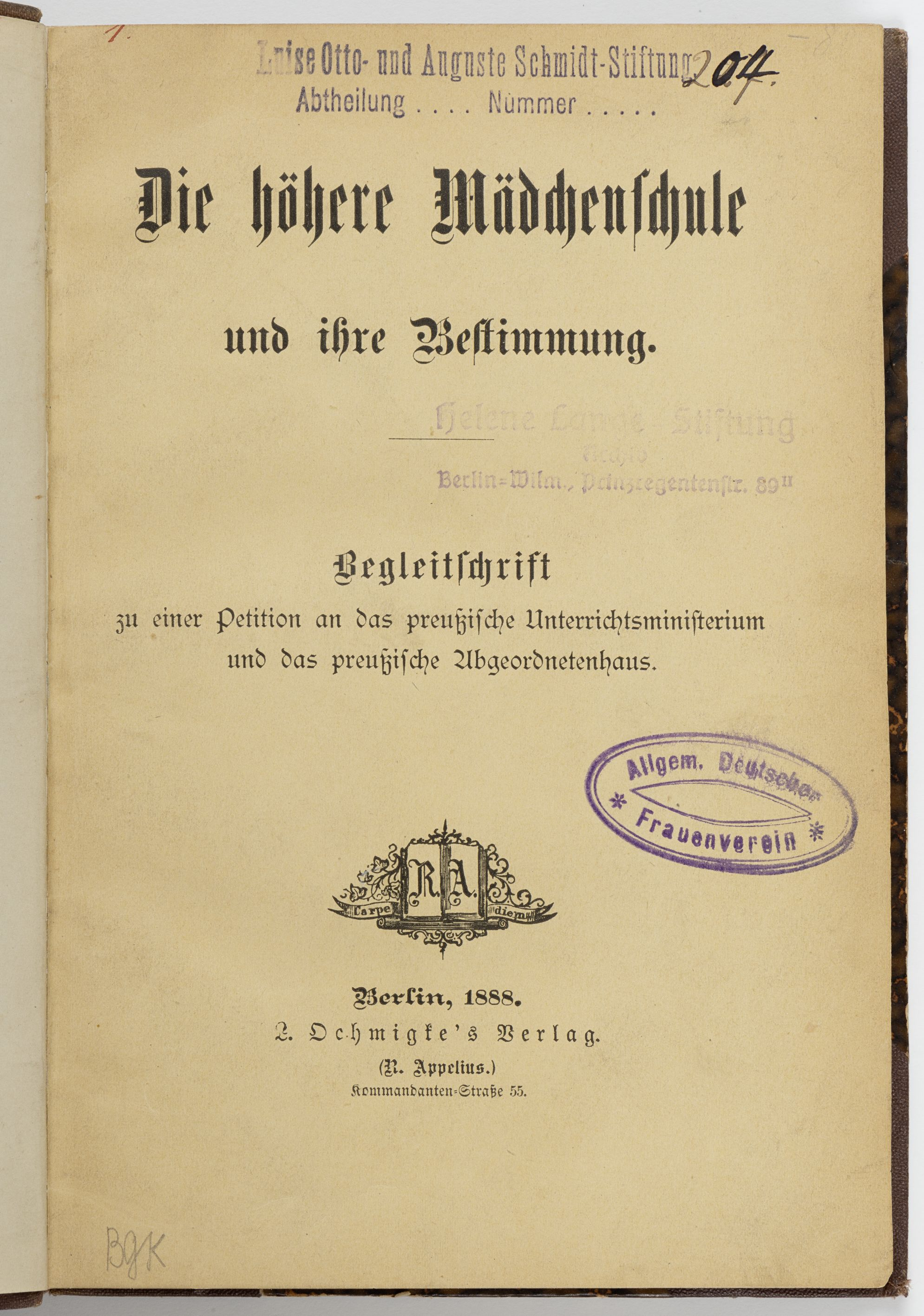 Helene Lange, "yellow brochure" for petition "Die höhere Mädchenschule und ihre Bestimmung" (the advanced girl's school and its importance), brochure, 1887. Photo of brochure in repository of Archiv der deutschen Frauenbewegung (Archive of German Women's Movement), Kassel. Photographer: Horst Ziegenfusz on behalf of Historisches Museum Frankfurt (Historical Museum Frankfurt). Published in Dorothee Linnemann (ed.): Damenwahl! 100 Jahre Frauenwahlrecht. Begleitbuch zur Ausstellung. Societäts-Verlag, Frankfurt am Main 2018, ISBN 978-3-95542-306-3, p. 57.